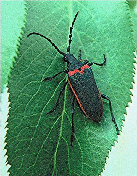 Valley elderberry longhorn beetle, Desmocerus californicus female